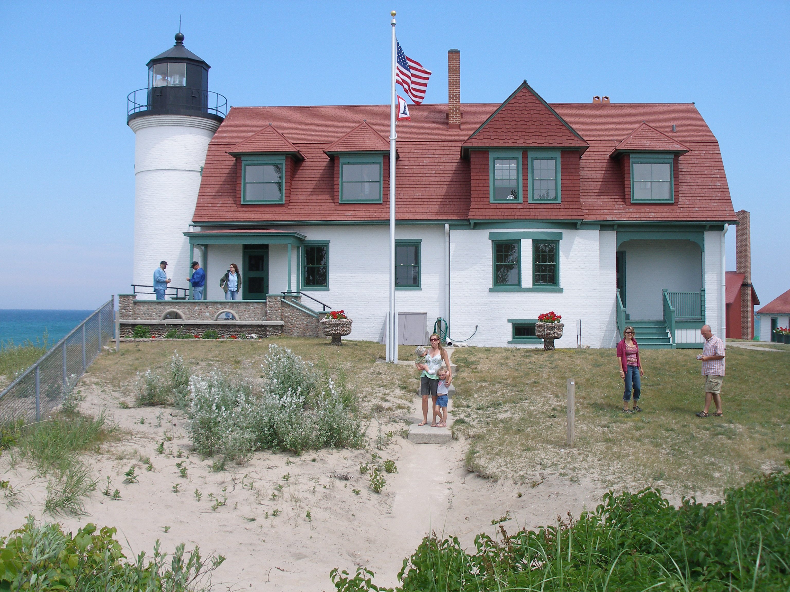 The Point Betsie Lighthouse off M-22 north of Frankfort, Michigan